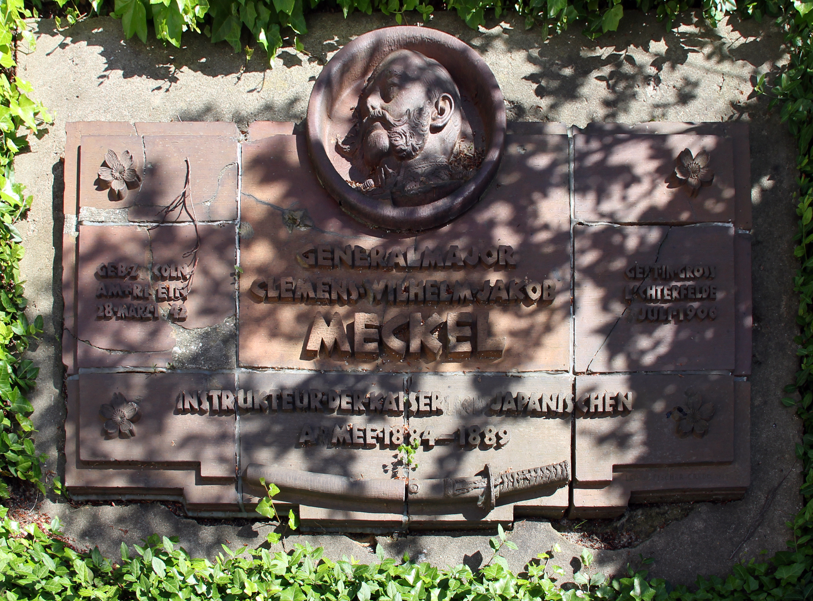 Memorial plaque, Clemens Wilhelm Jakob Meckel, Goerzallee 6, Berlin-Lichterfelde, Germany